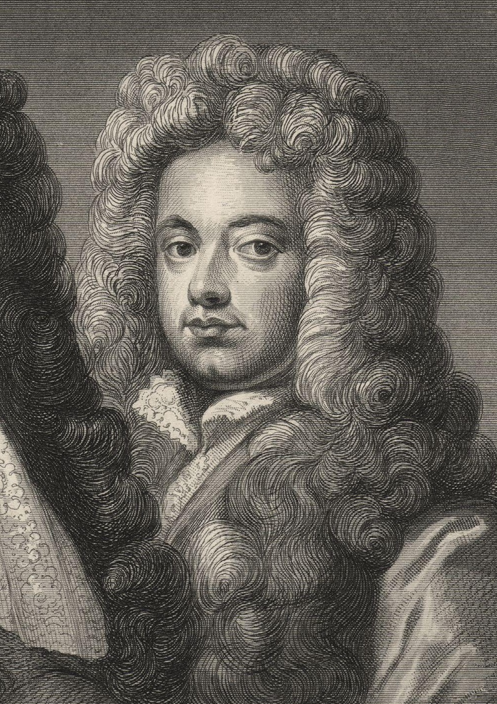 John Somers, Baron Somers, by unknown artist. All images in this batch are listed as "unknown author" by the NPG, who is diligent in researching authors, and was donated to the NPG before 1939 according to their website.